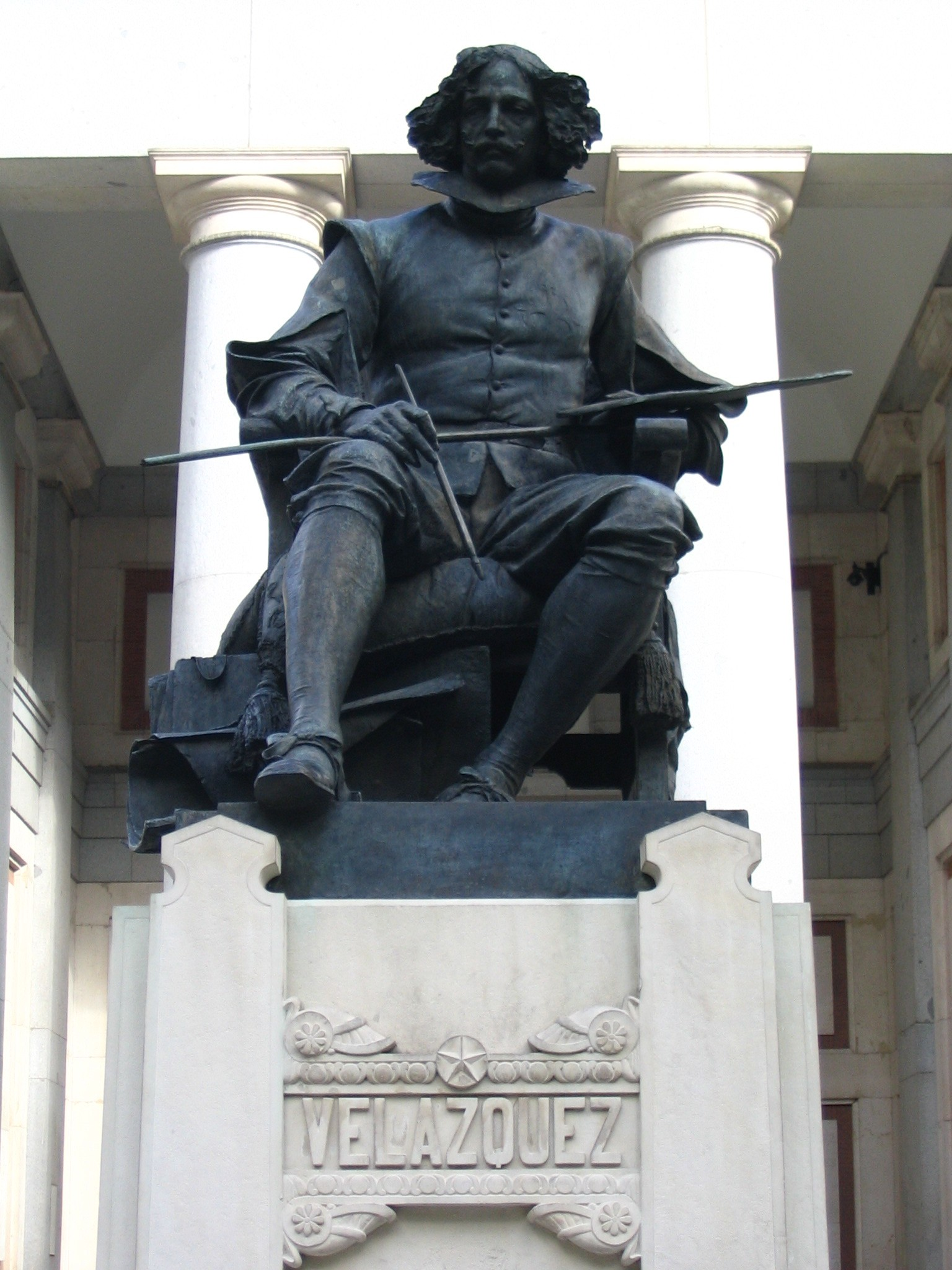 Monument to the painter.